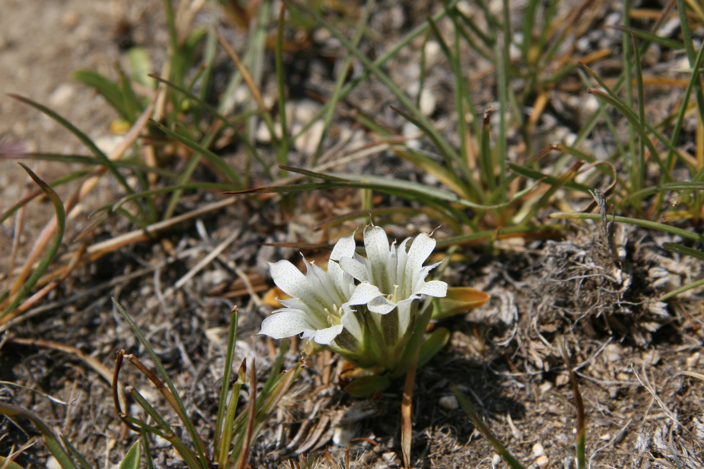 A pair of Sierra alpine gentians (Gentiana newberryi var. tiogana), showing the ground-hugging white flowers with prominent brown stripes on the outside and small green spots on the inside of the petals. East of the lowest lake in Pioneer Basin, John Muir Wilderness, California.